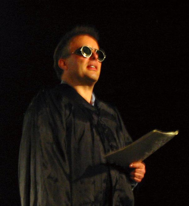 Jello Biafra @ the KIFF, Aarau, Switzerland, Jello came on stage as the man, future governor of california